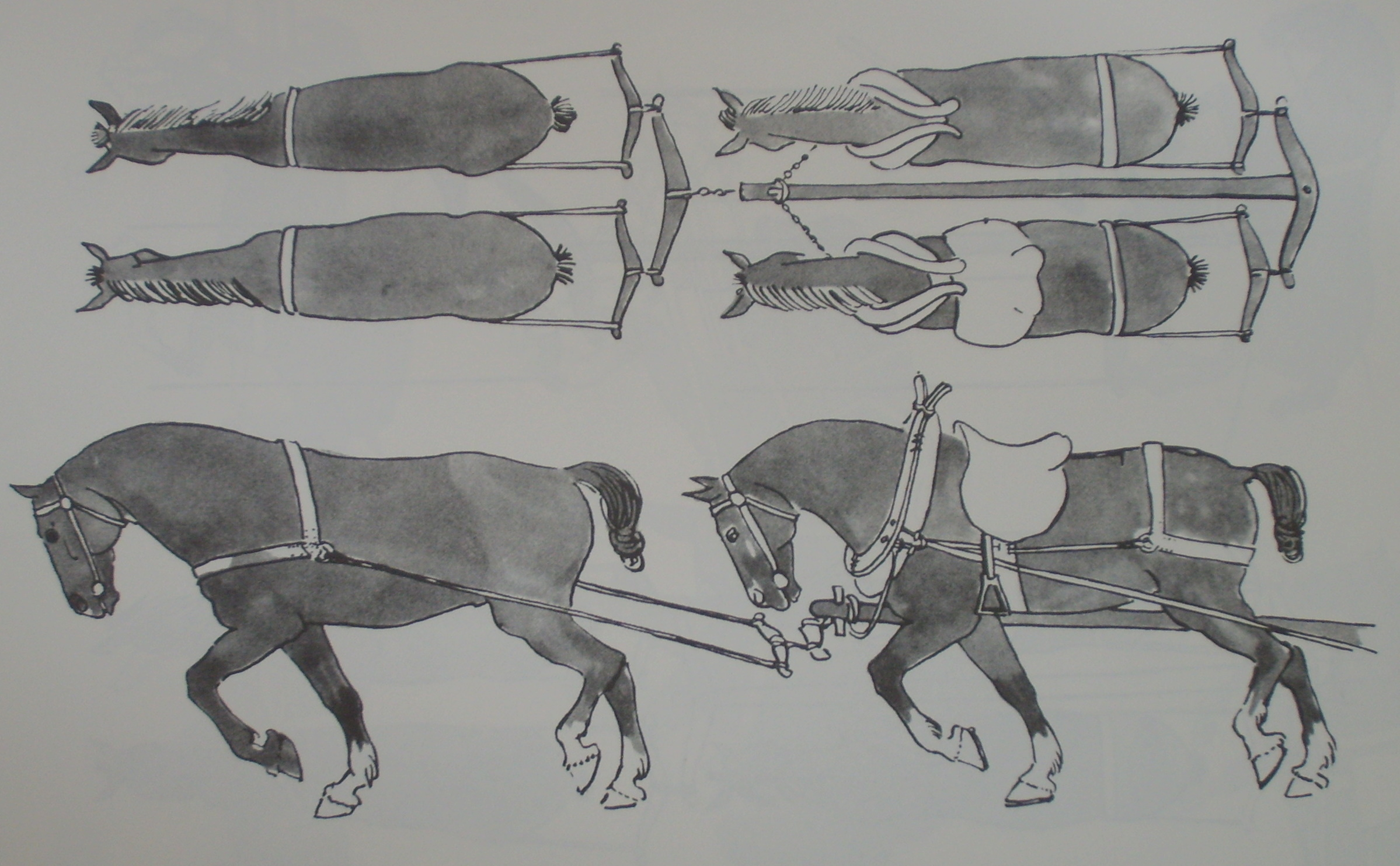 illustration of a medieval horse team; lead horses have breast collars, while the other pair have horse collars